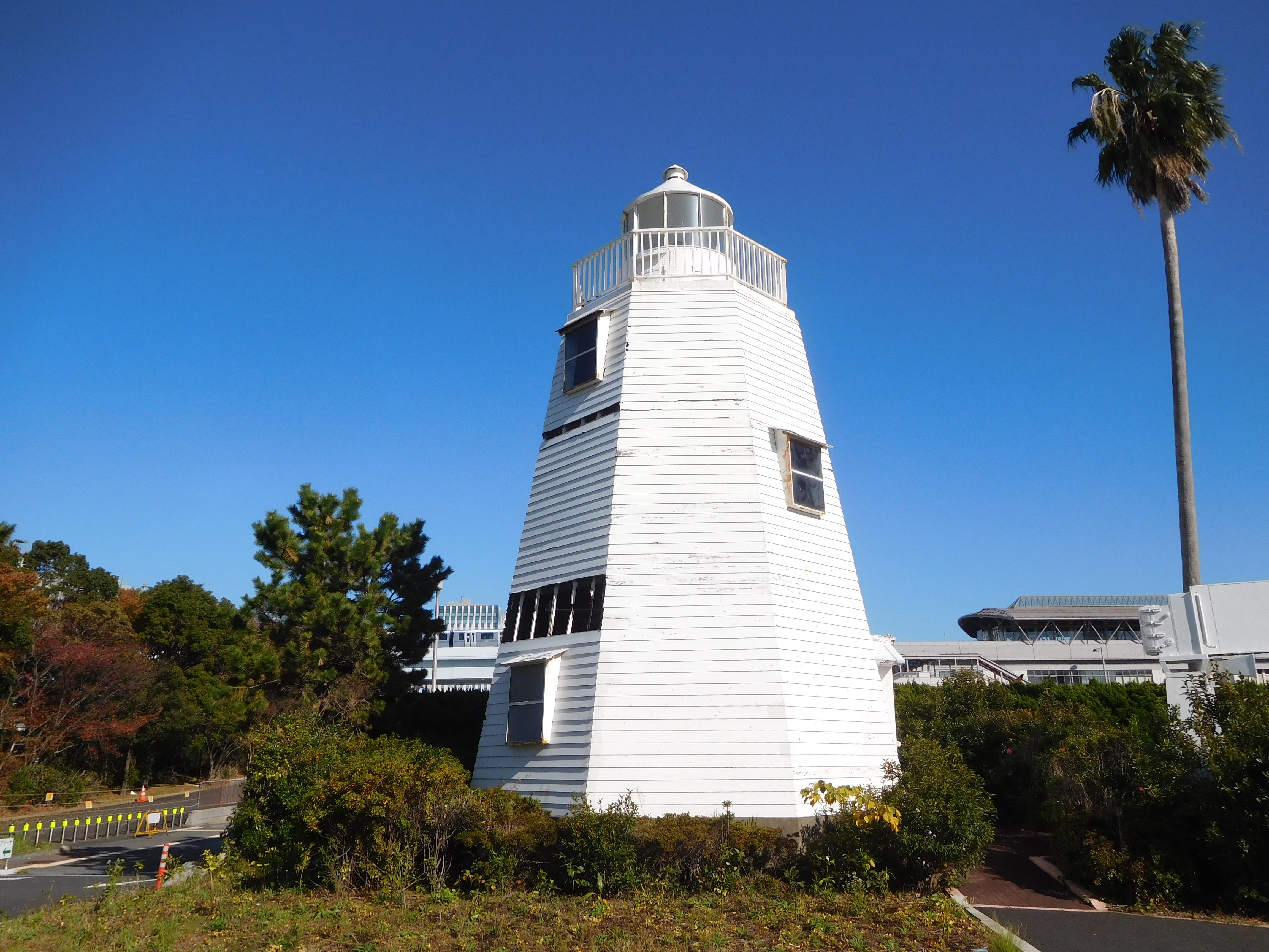 This is the first Anorisaki Lighthouse in Kōtō, Tokyo, Japan.